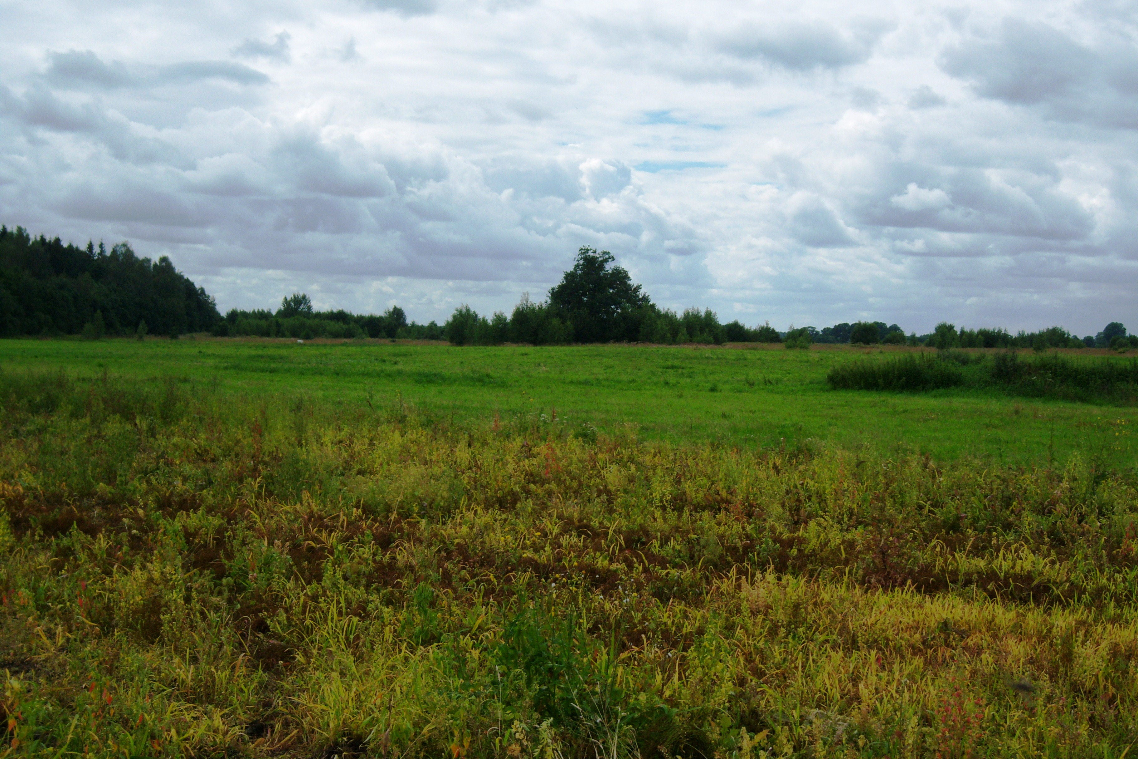 Karvelių oak by Pypliai village, Kaunas district, Lithuania